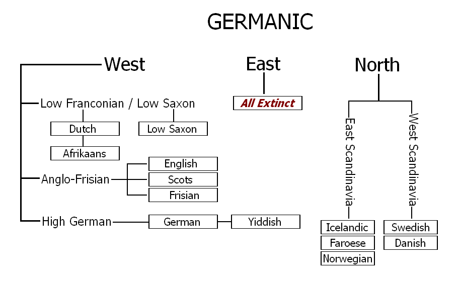 Language tree of contemporary Germanic languages.